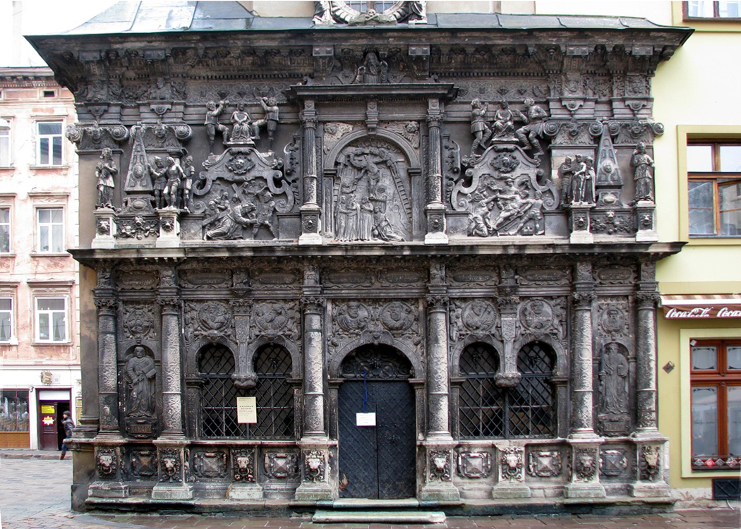 The Chapel of Boim family is a small shrine in Lviv, Ukraine, located just outside the Latin Cathedral, in what used to be known as the Chapter Square. Built by Andrzej Bemer in the late Renaissance style between 1609 and 1615, with sculptural décor designed by Johann Scholz and Hans Pfister, the chapel was originally located in what used to be the city's main cemetery. Founded by mighty merchants, Jerzy Boim and his wife Jadwiga Niżniowska, the Boim chapel was finished by their son, Paweł Jerzy Boim.